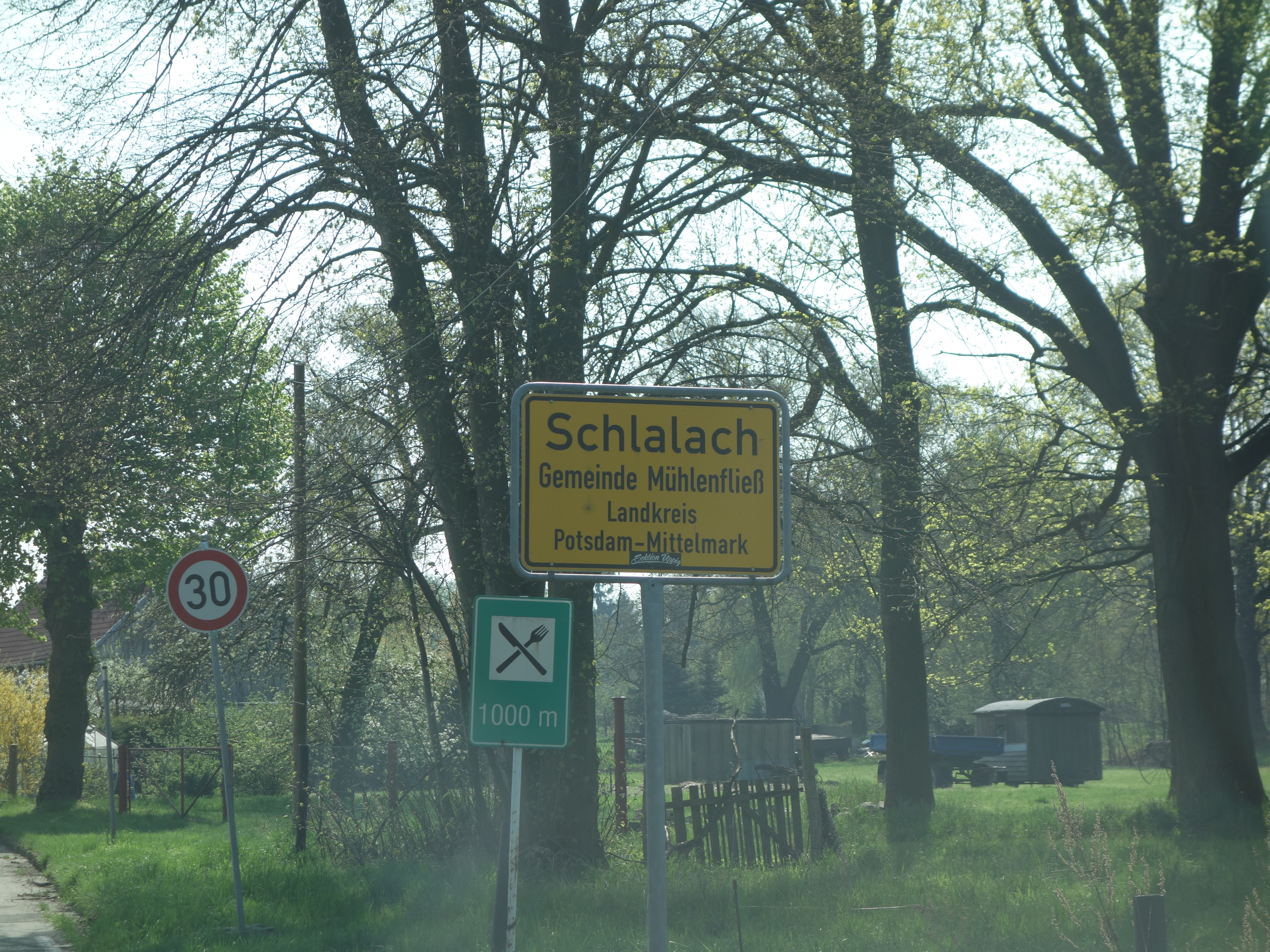 Ortstafel